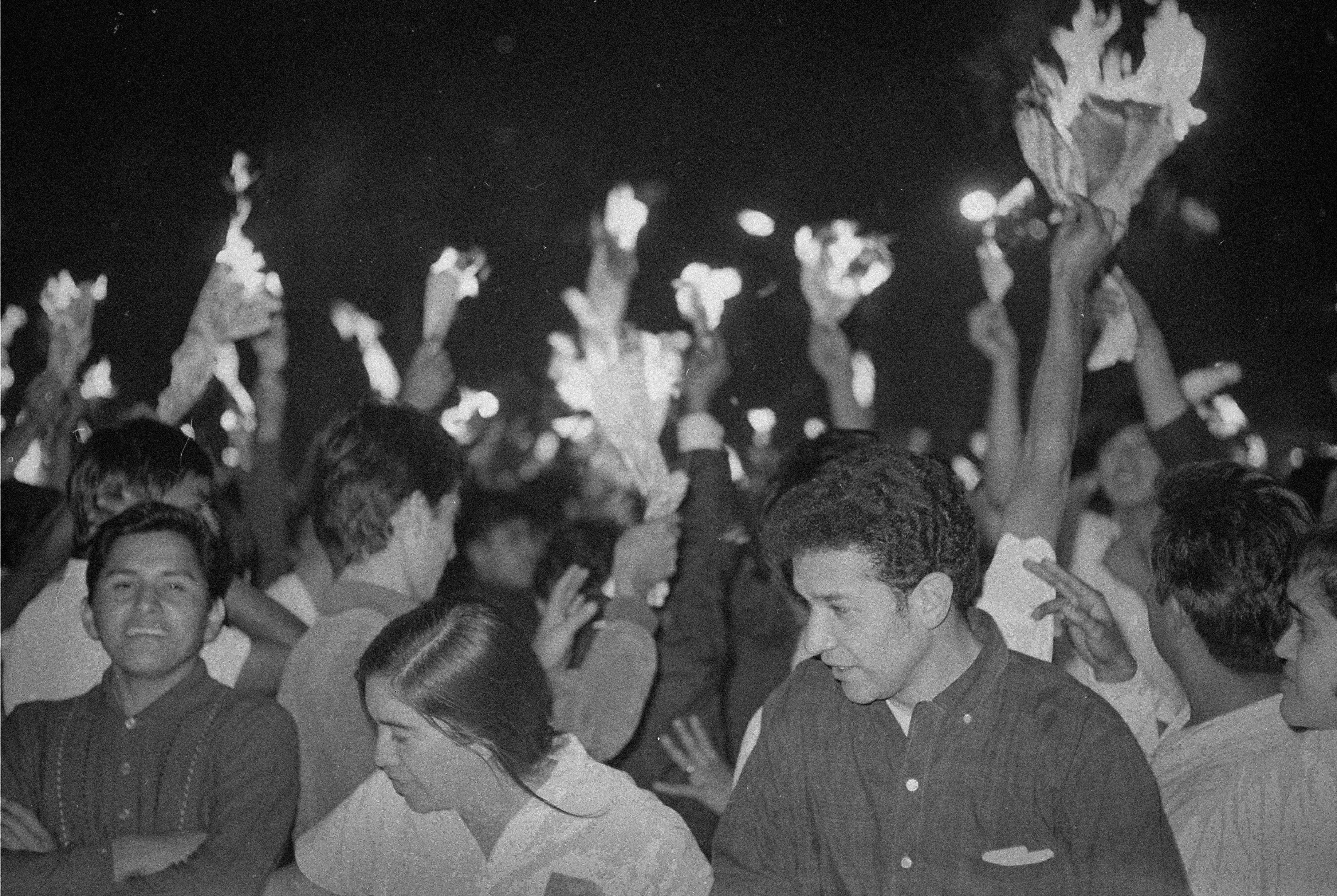 Images of Mexico City Student Movement, October 1968.